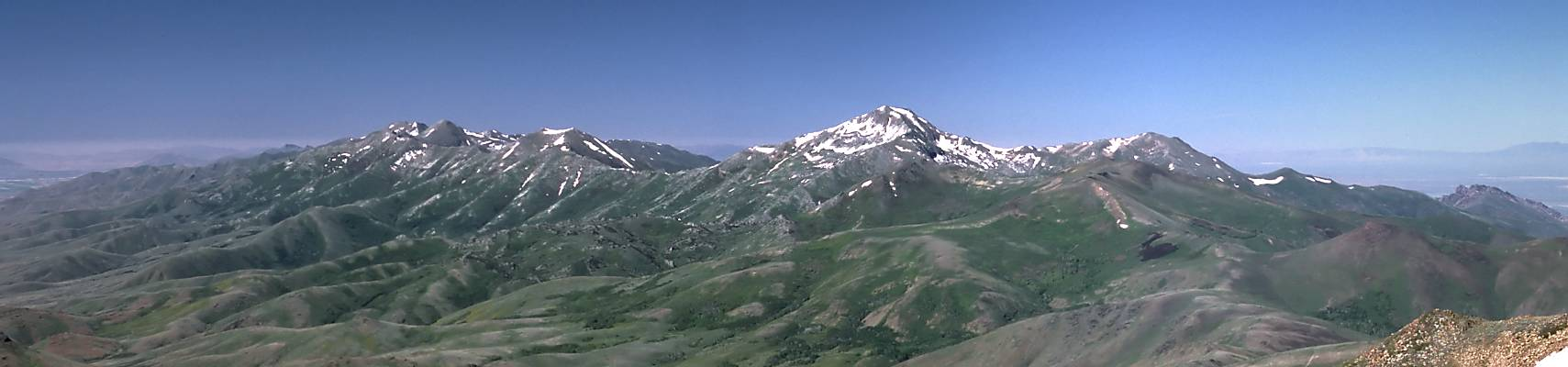 The southern section of the Santa Rosa Mountains in Nevada, looking southwest from near Granite Peak.